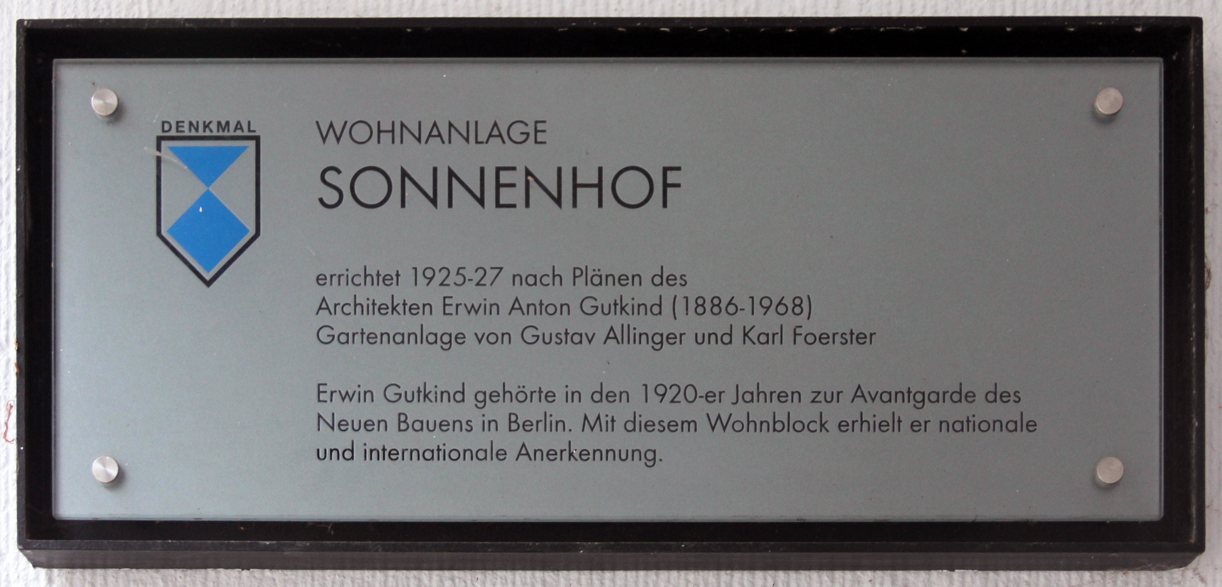 Memorial plaque, Wohnanlage Sonnenhof, Archenholdstraße 72, Berlin-Friedrichsfelde, Deutschland